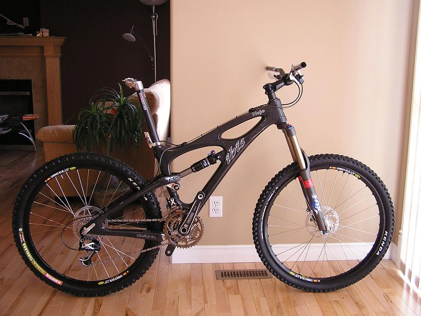 Partially completed Ibis Mojo.